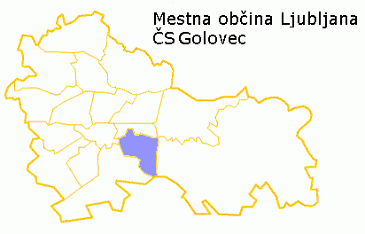 author: Navportus 18:33, 26 June 2007 (UTC) description: area of Golovec quarter in Ljubljana